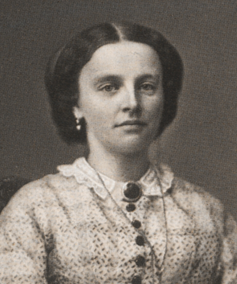 Photo from 1864 of Princess Teresia av Sachsen-Altenburg (1839-1914). Cropped